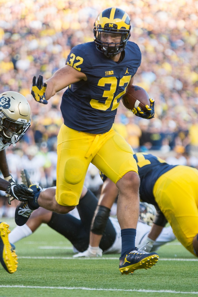 Ty Issac touchdown for the w:2016 Michigan Wolverines football team in a 45-28 victory over w:2016 Colorado Buffaloes football team at Michigan Stadium on September 17, 2016.